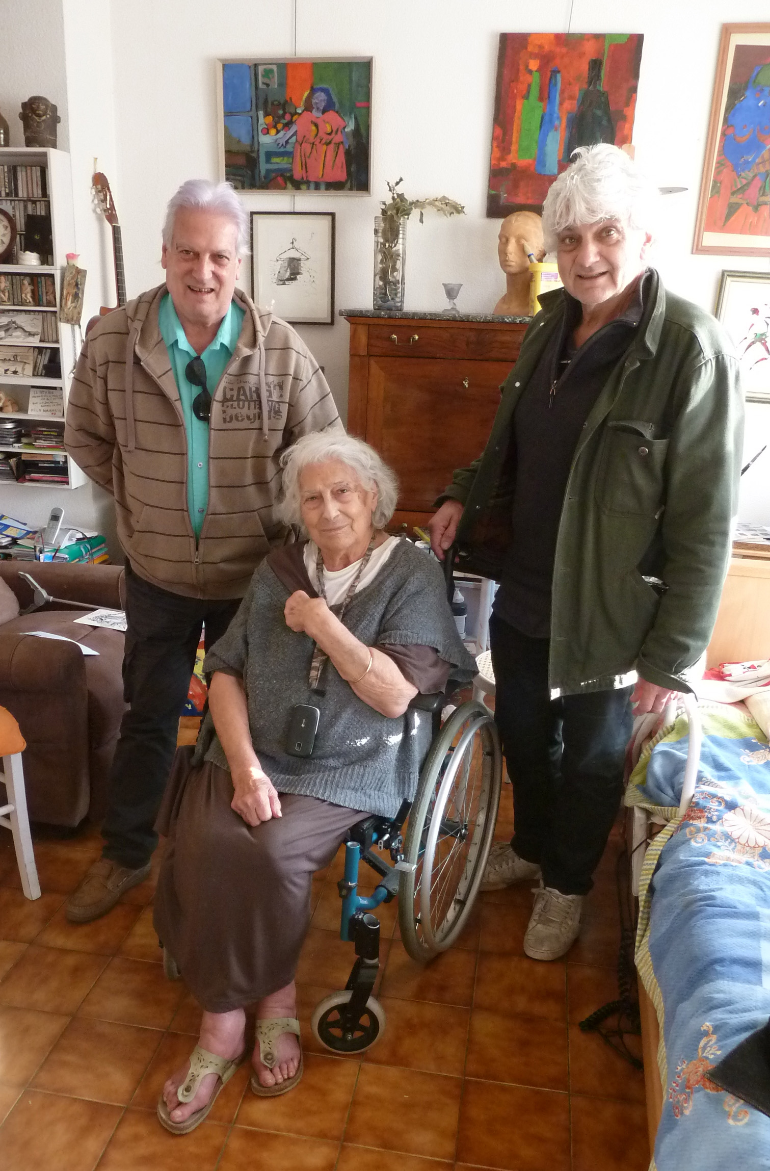 Teresa Rebull, at home, with their children, 17 January 2015